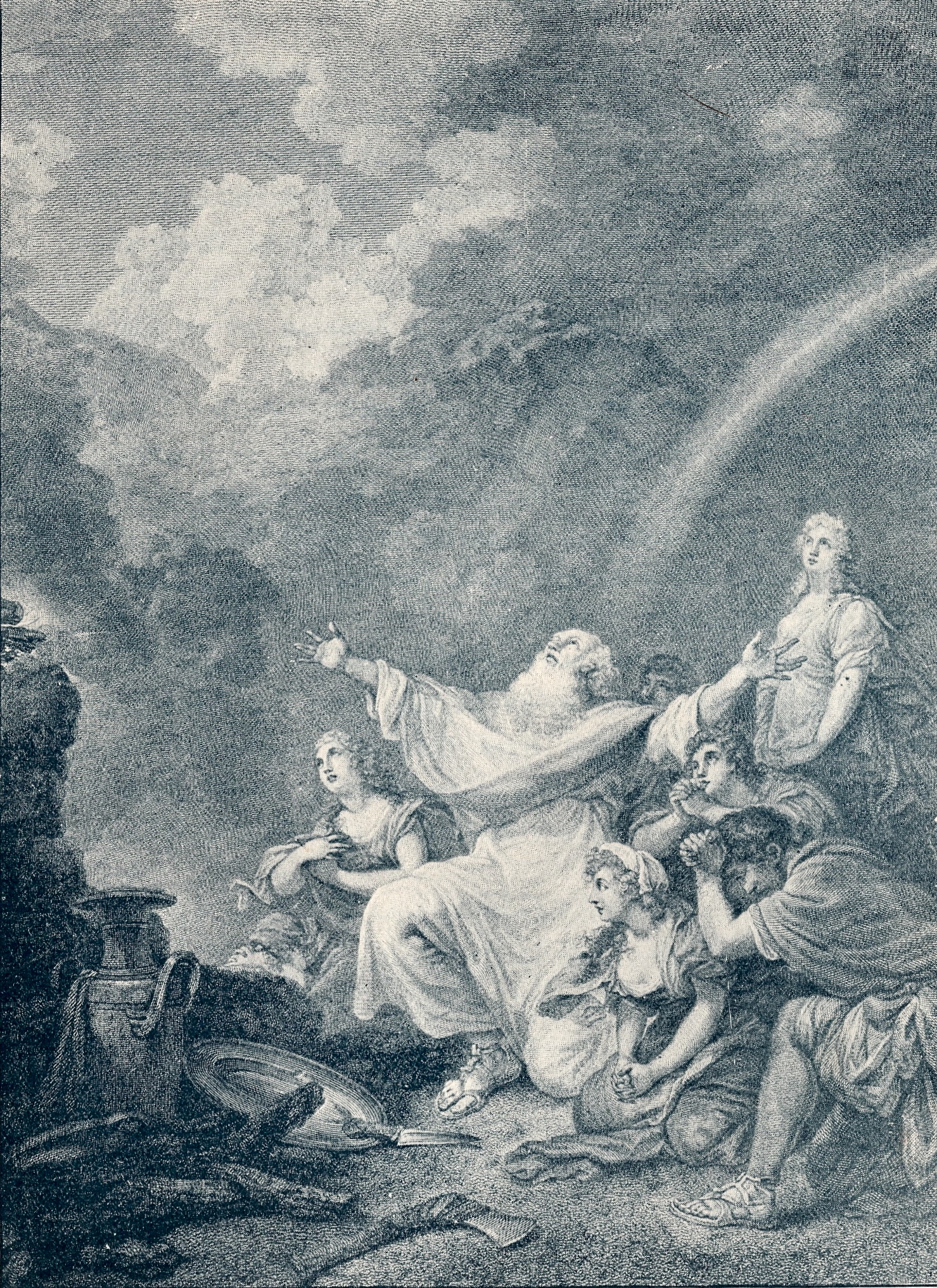 Illustrated plate from the book